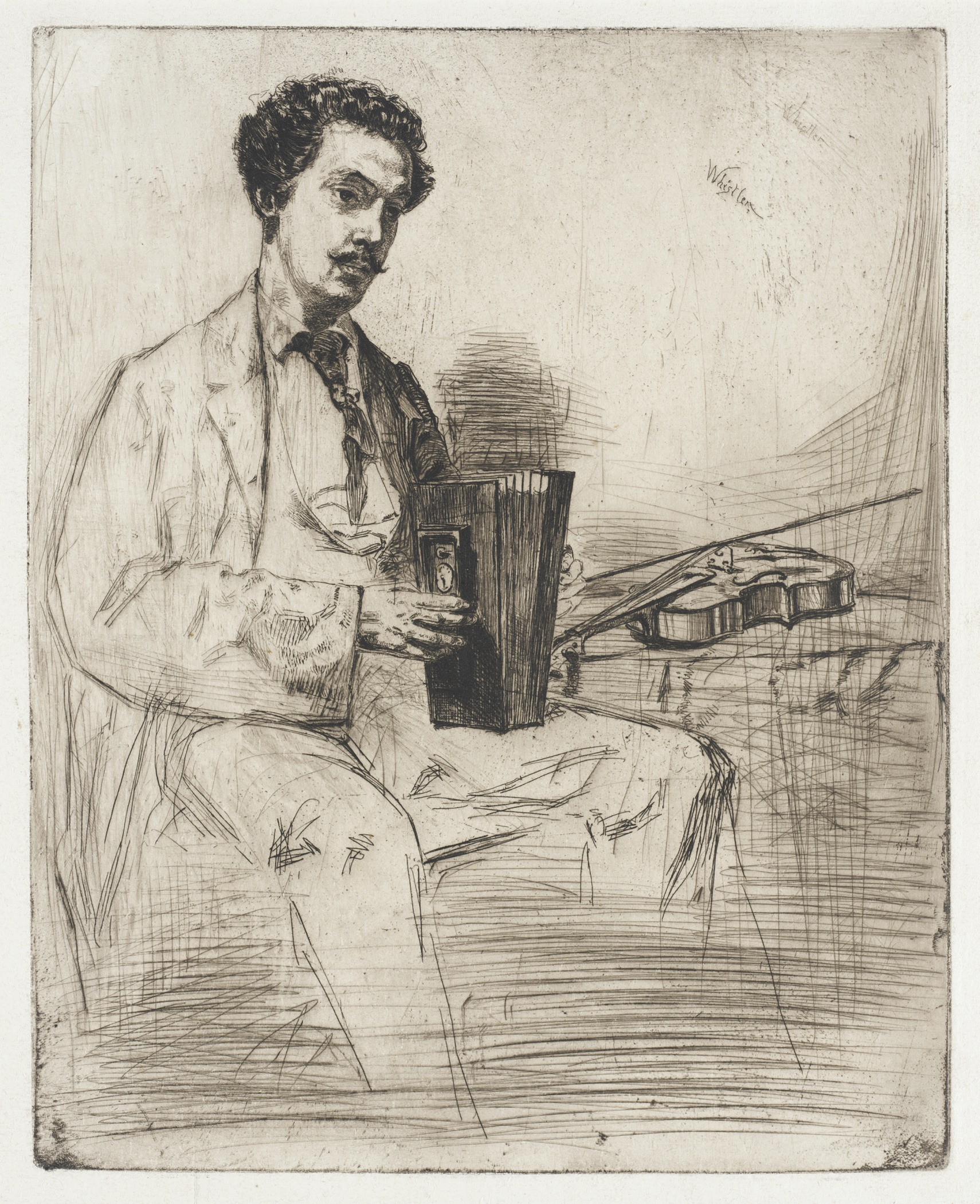 United States, 1861 Prints; etchings Etching and drypoint 9 13/16 x 7 7/8 in. (24.92 x 20 cm) Gift of The Julius L. and Anita Zelman Collection (AC1992.234.2) Prints and Drawings